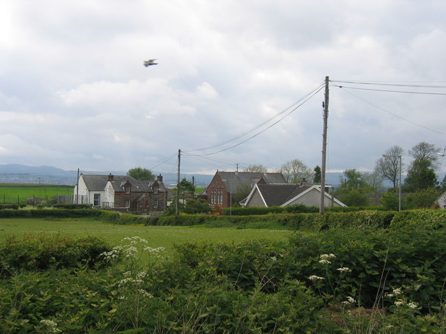 Houses in Torthorwald Old School house on the right, taken from the churchyard